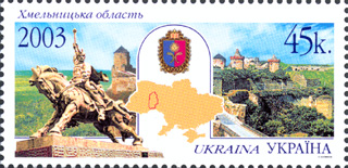 Stamp of Ukraine